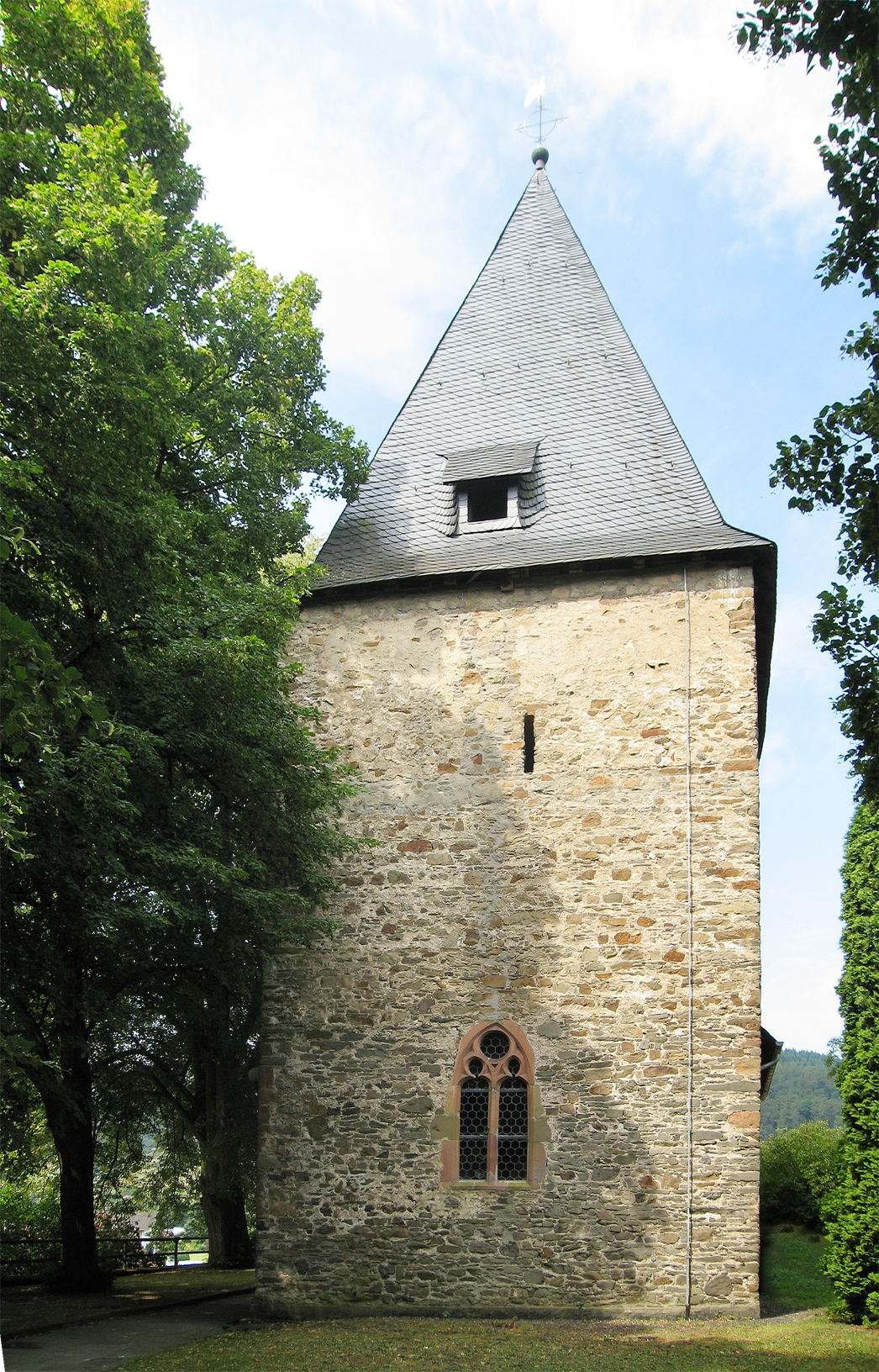 The Church of Eckelshausen a village in the area of Biedenkopf